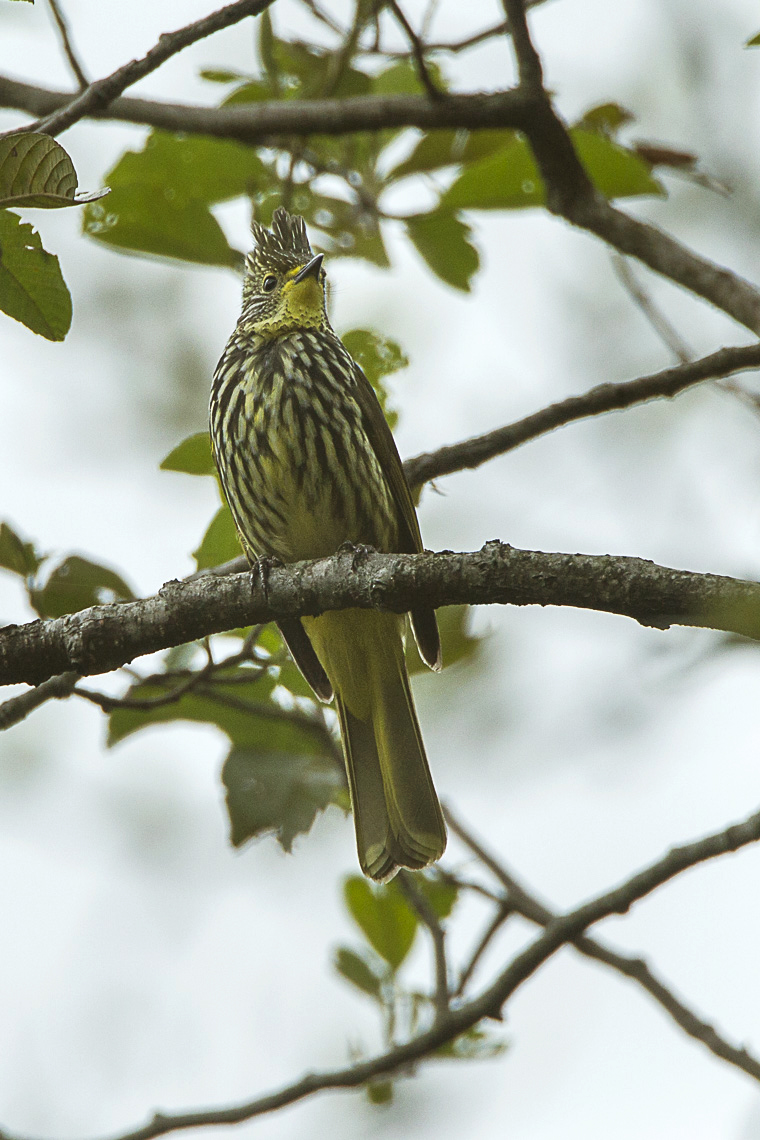 Striated Bulbul - Bhutan_S4E1275